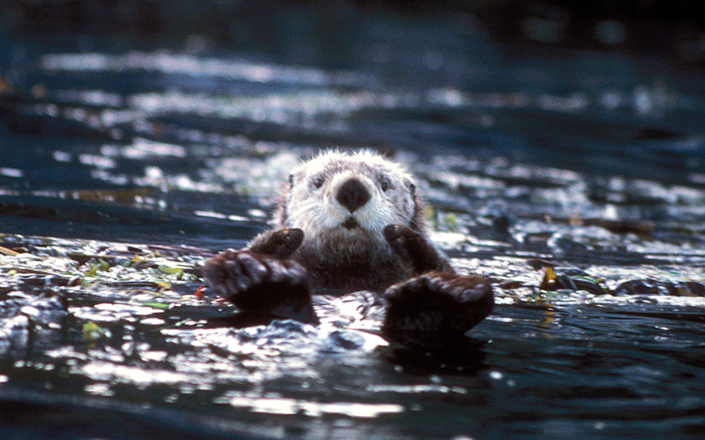 Sea otters are keystone predators in the kelp forest ecosystem of Alaska, keeping invertebrate populations in check and thereby maintaining biodiversity